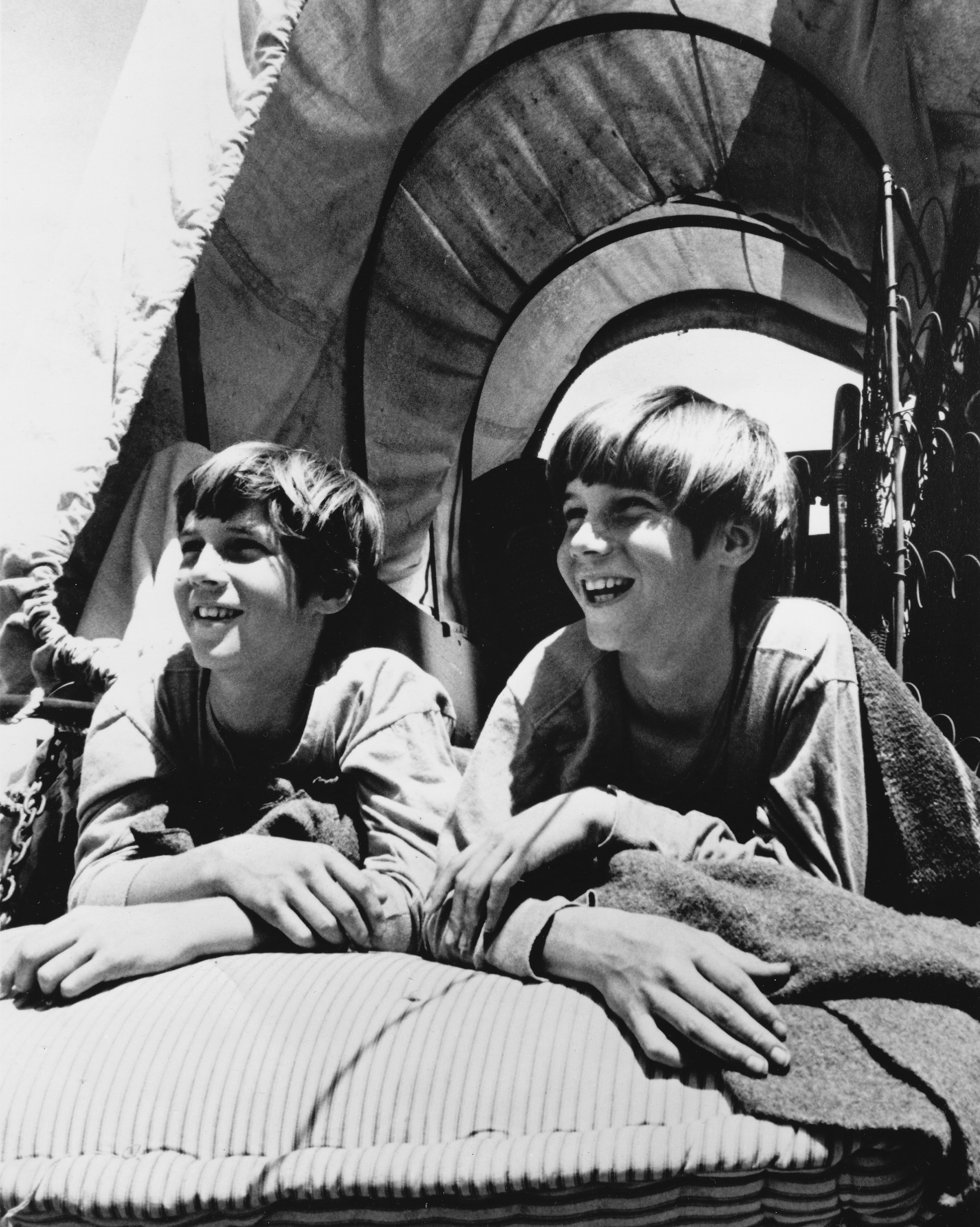 Publicity photo of twin child actors Keith Schultz (left) and Kevin Schultz (right) promoting the premiere of the ABC television series The Monroes.